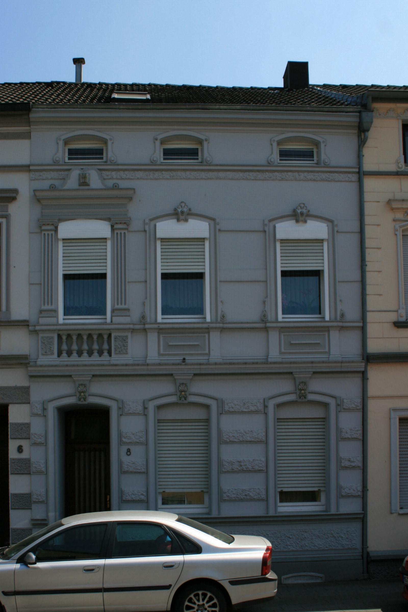 Cultural heritage monument No. Sch 012 in Mönchengladbach